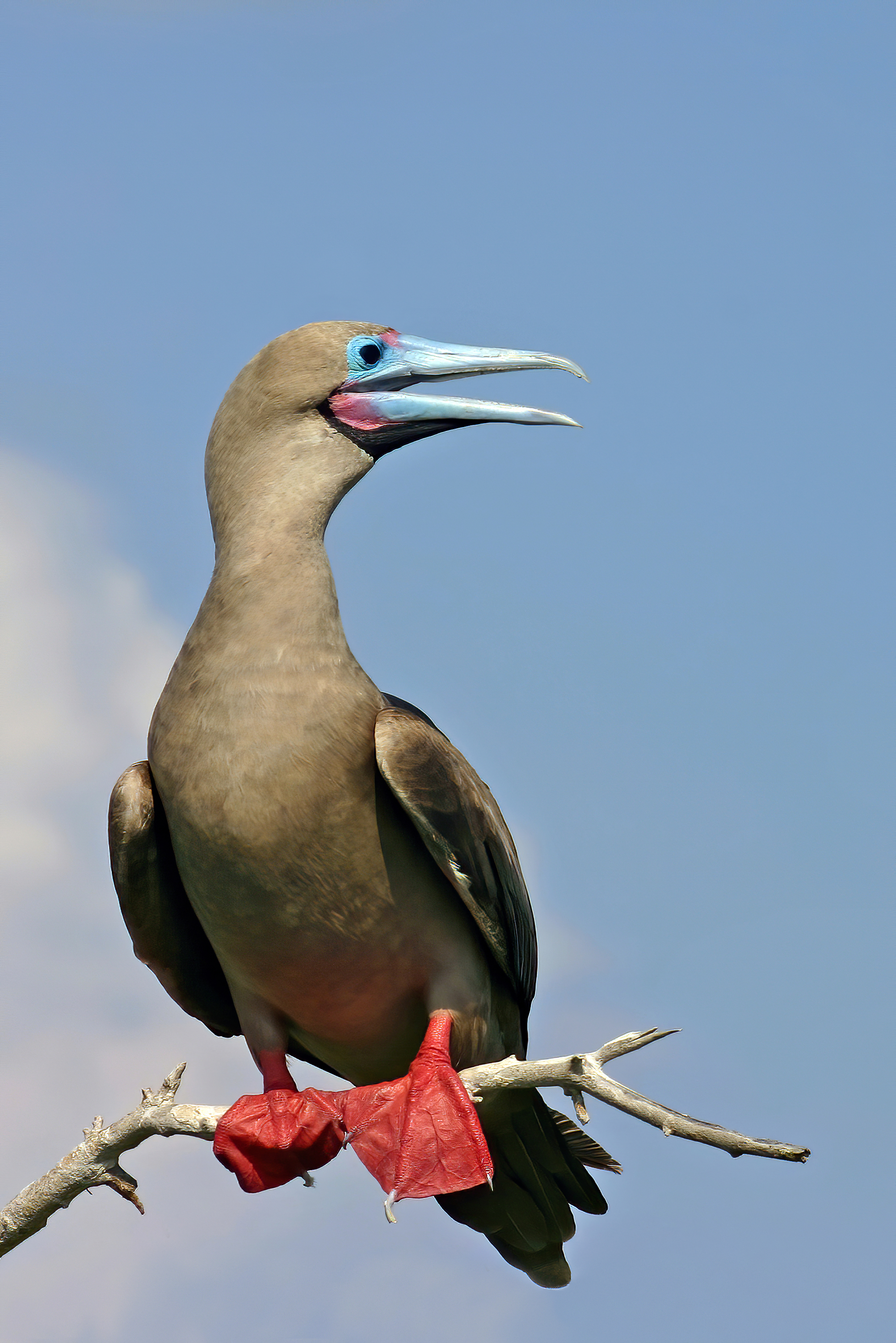 Galápagos red-footed booby (Sula sula websteri), adult male, brown morph, on Genovesa Island, Galapagos Islands.